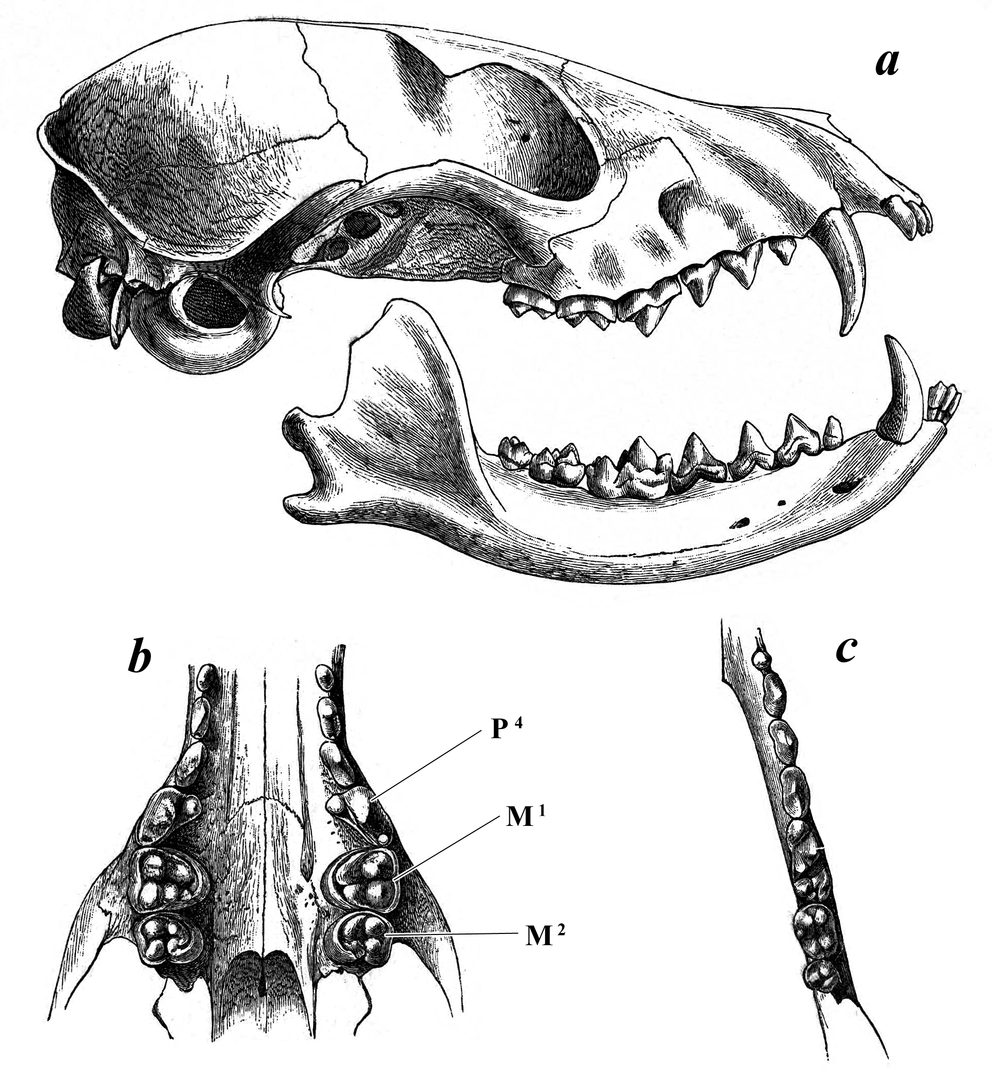 Skull and jaw of the hoary fox (Lycalopex vetulus), modified from Mivart (1890; figured as “Canis urostictus” therein); (a): skull and jaw in right lateral view; (b): skull (cranium) in ventral (palatal, occlusal) view; (c): right mandibular ramus in dorsal (occlusal) view.